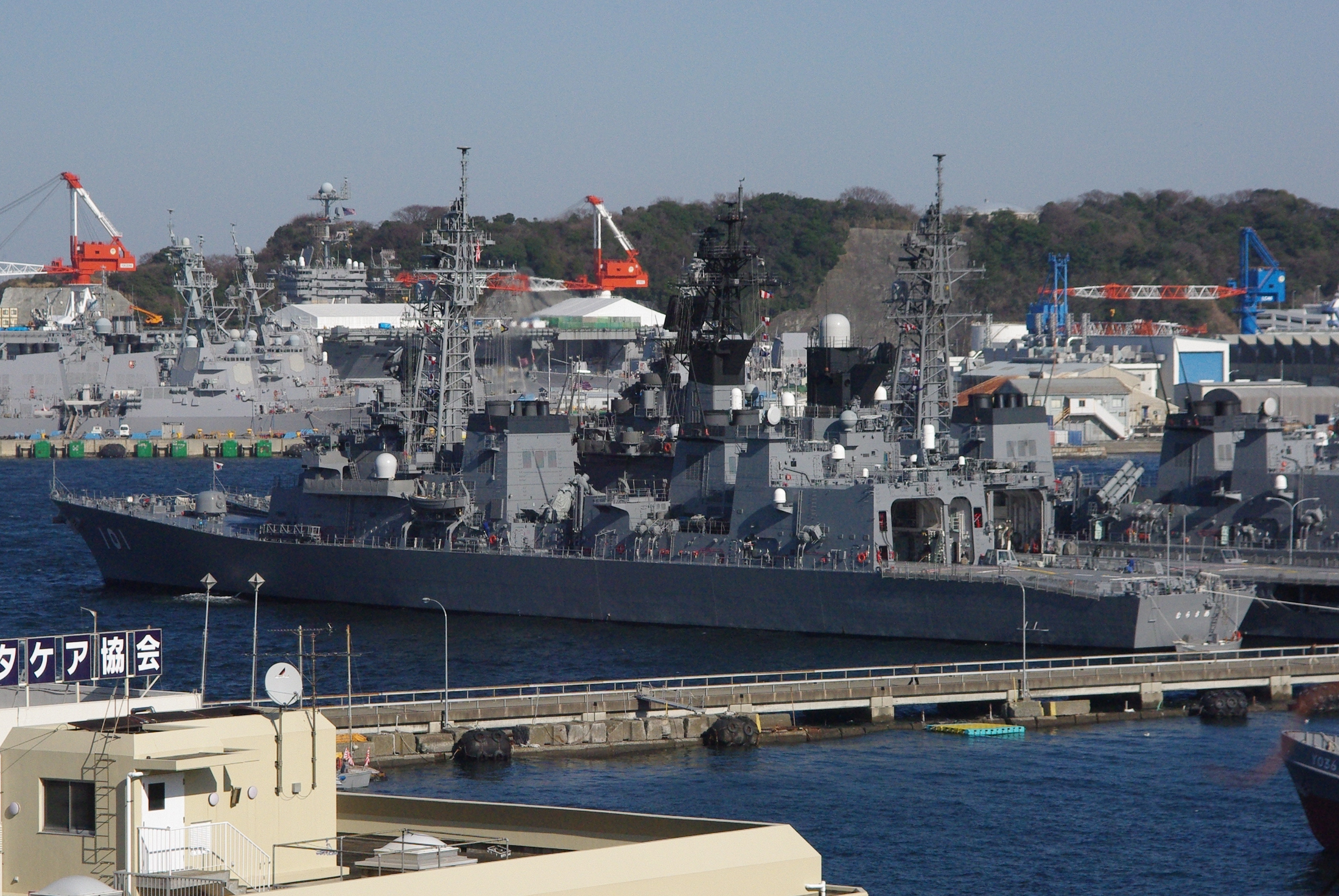 JMSDF_DD101_Muarasame.Yokosuka,Japan.08-Feb-2009.Taken by los688.PD-self.